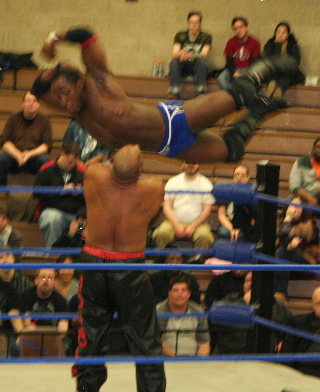 Professional wrestler ACH performing a diving crossbody onto 2 Cold Scorpio during the National Pro Wrestling Day.